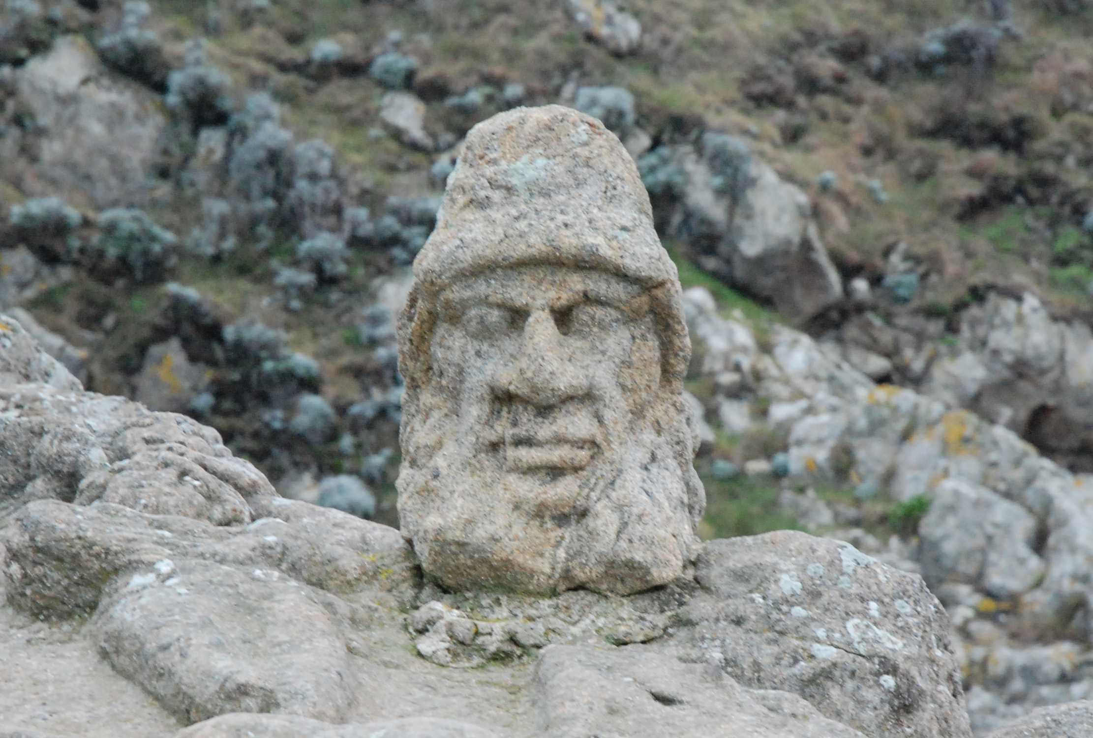 Sculpted rocks of Rotheneuf